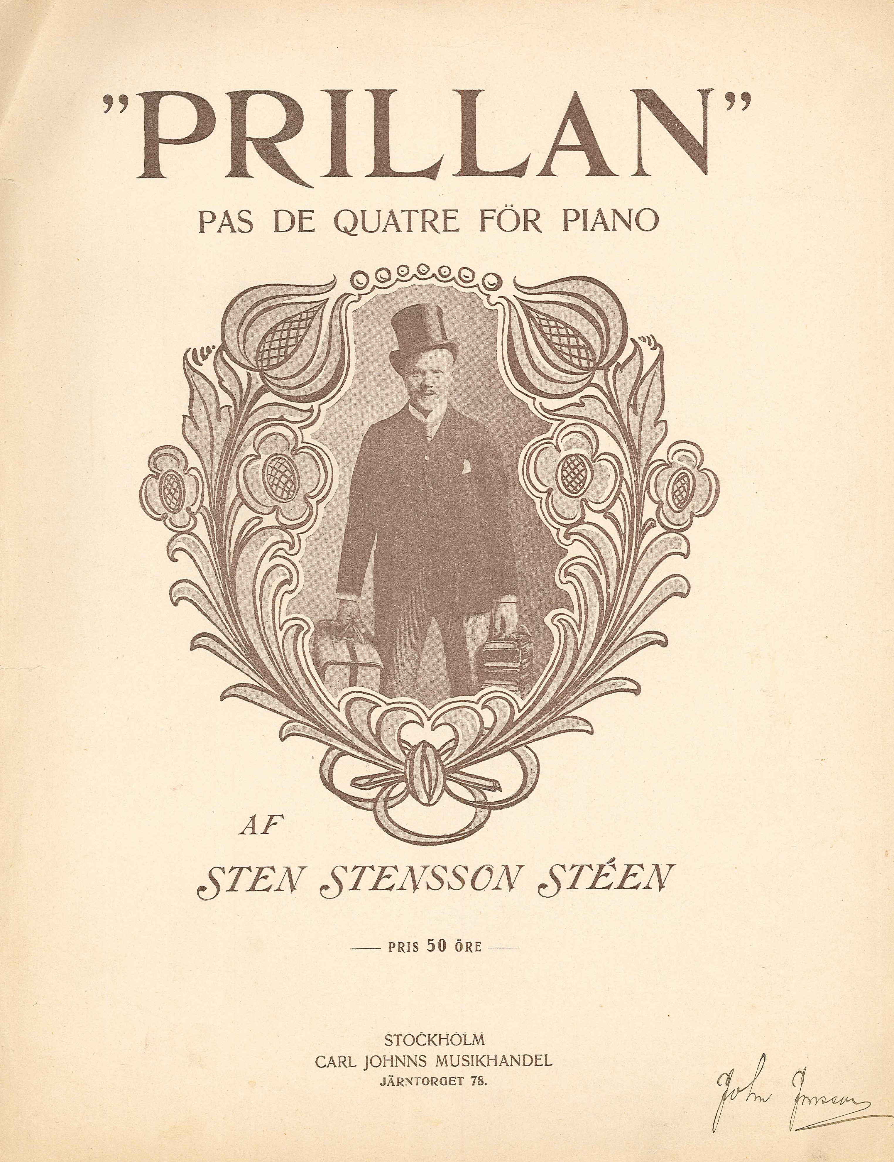 The sheet music cover for Prillan, a piece for piano, ostensibly written by "Sten Stensson Stéen". This is however a pseudonym; Stéen was actually a fictual character in a popular Swedish play at the time (1903), best known as played by actor Elis Ellis who is seen in the photo.